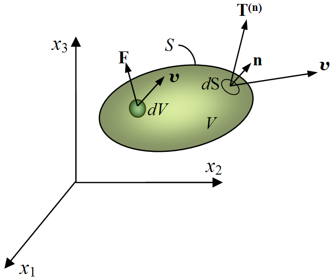 Motion of a body in a Cartesian coordinate system. For derivation of Equations of Motion and Equations of Equilibrium